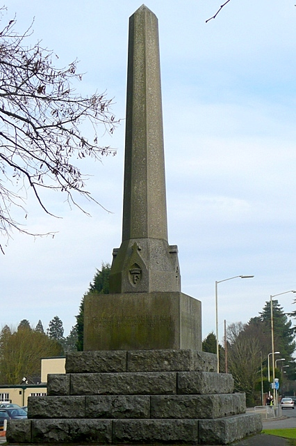 Falkland Memorial. In memory of one of the Royalist commanders at the nearby 1st battle of Newbury. The plaque on the far side is seen here 1181177 and a view from the opposite direction here 1181179. Behind is the roundabout junction of Andover Road with Essex Street and Monks Lane.